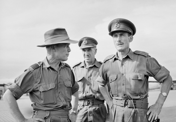 During his visit to South Vietnam, the Chairman of the Chiefs of Staff, Lieutenant General (Lt Gen) Sir John Wilton, visited the RAAF Contingent Headquarters at Vung Tau. He was accompanied by the Commander of Australian Armed Forces, Vietnam, Major General (Maj Gen) Kenneth MacKay and the Officer Commanding RAAF Contingent Vung Tau, 33113 Group Captain (Gp Capt) Peter Frank Raw, of Ipswich, Qld, on the tour of the Air Force installations at the Vung Tau airfield. After his visit to Vung Tau, a No 9 Squadron, RAAF, Iroquois B Model helicopter flew Lt Gen Sir John Wilton to the Free World Headquarters of the Allied Forces in Saigon. Here, Gp Capt Raw (left), Maj Gen MacKay (centre) and Lt Gen Sir John Wilton (right) are at Vung Tau Airfield prior to leaving by RAAF helicopter to Saigon.